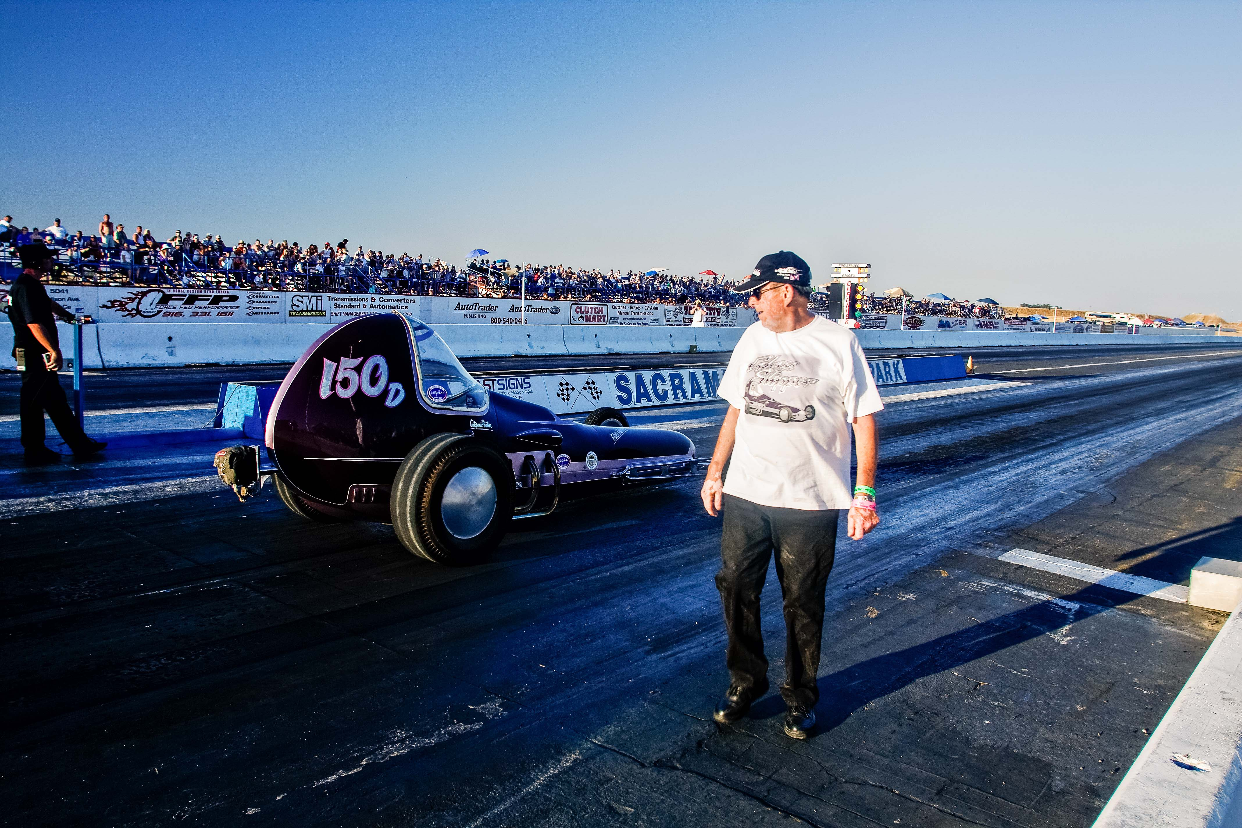 Doug Butler walking from the starting line as Ed Cortopassi in The Glass Slipper lines up to make the car's last pass at Sacramento Raceway in 2009.